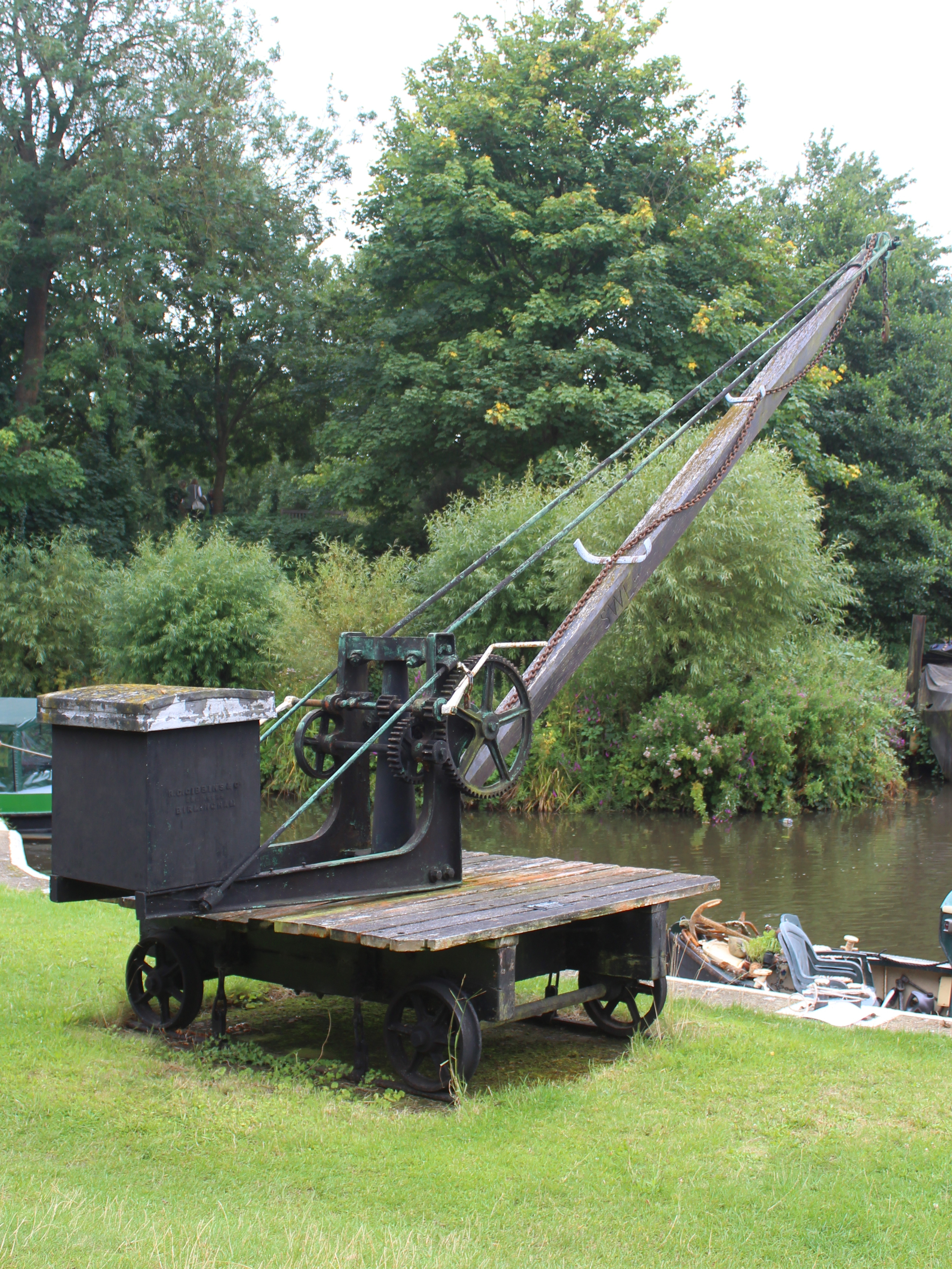 Wharfside crane, Dapdune Wharf, Guildford. This crane, which originally ran along a track that stretched the length of the canal is believed to date from the nineteenth century. It was built by R.C. Gibbins & Co, Engineers, Birmingham and remained in use until 1969 and was rated to lift up to 10 cwt (about 500 kg).[1] ↑ Crane at Dapdune Wharf Guildford. Harbour cranes project. Retrieved on 5 August 2017.